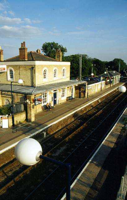 Audley End station. Audley End, the nearest station for Saffron Walden, is on the Liverpool Street - Cambridge line.